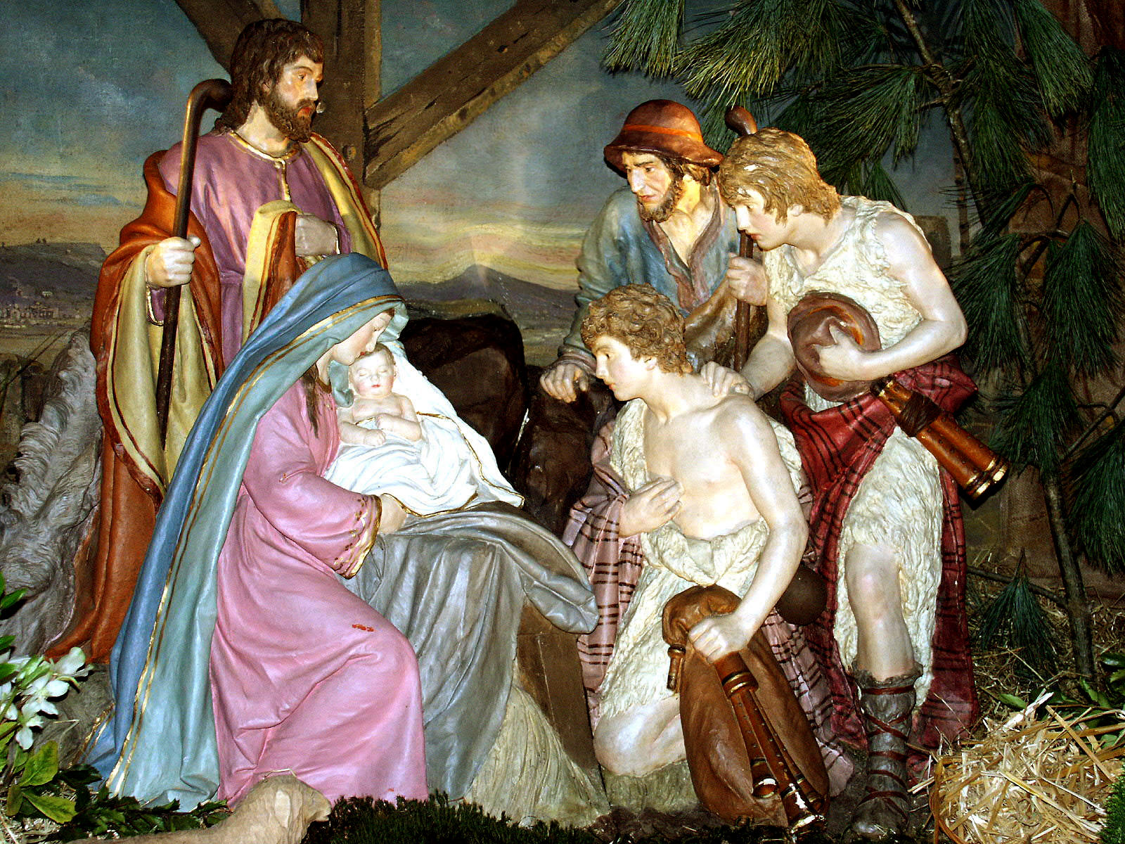 Lünner Krippe, 1884 (wood) made by Heinrich Weltring (1847-1917), today in Lünne church. Weltring was a German sculptor